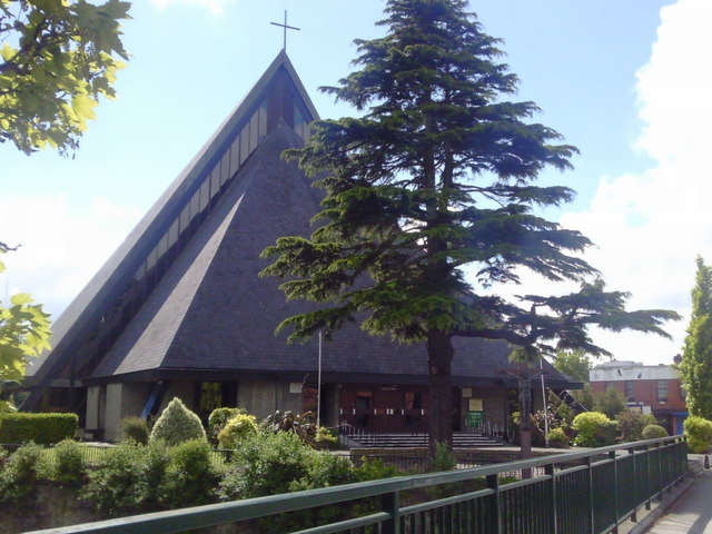 Church, Glasnevin, Dublin